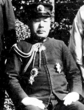 Vice Admiral Fukudome Sigeru